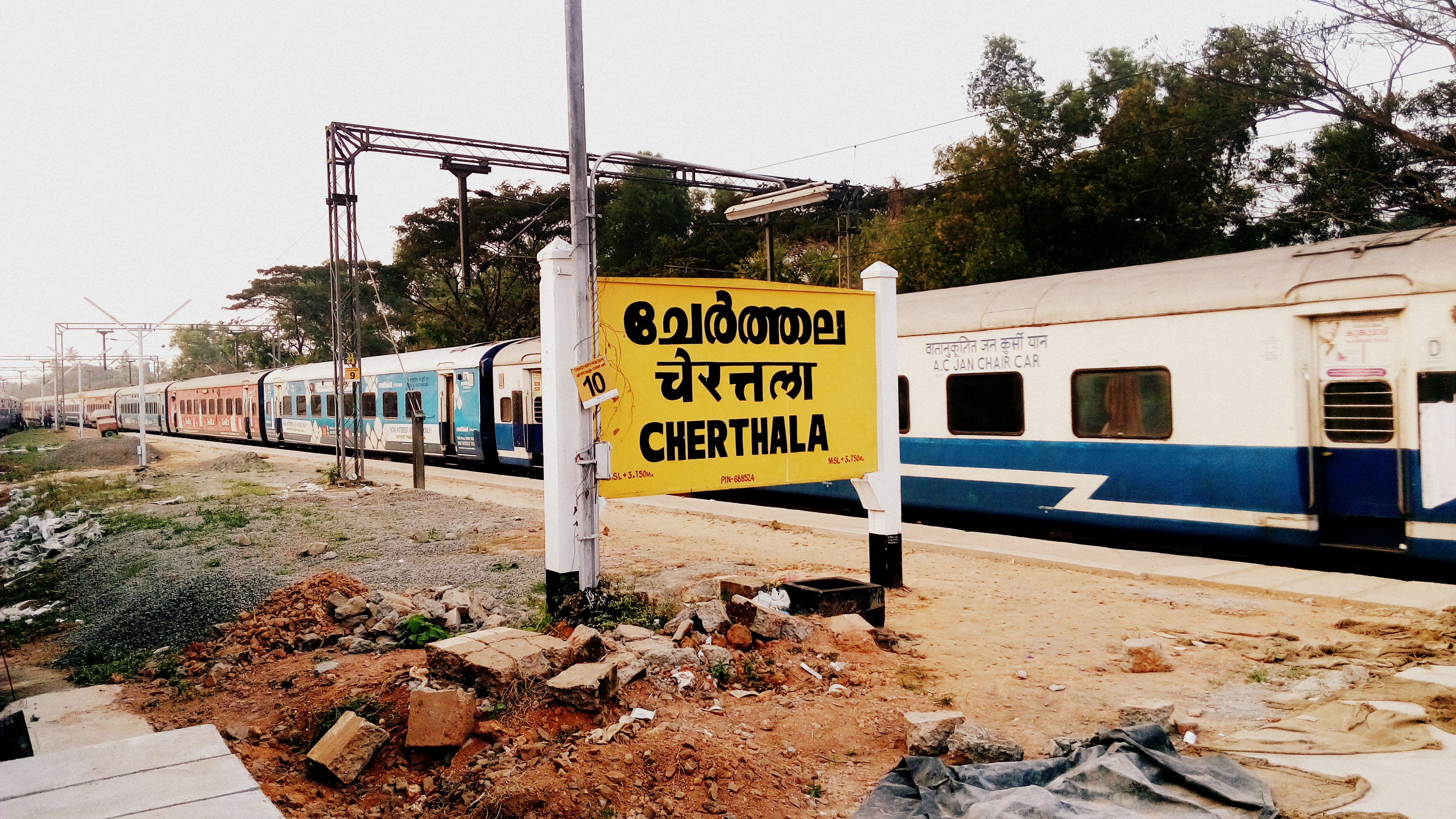 Cherthala is an important railway station in Kerala, India